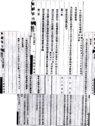 Convention For The Lease Of The Liaotung Peninsula 1898